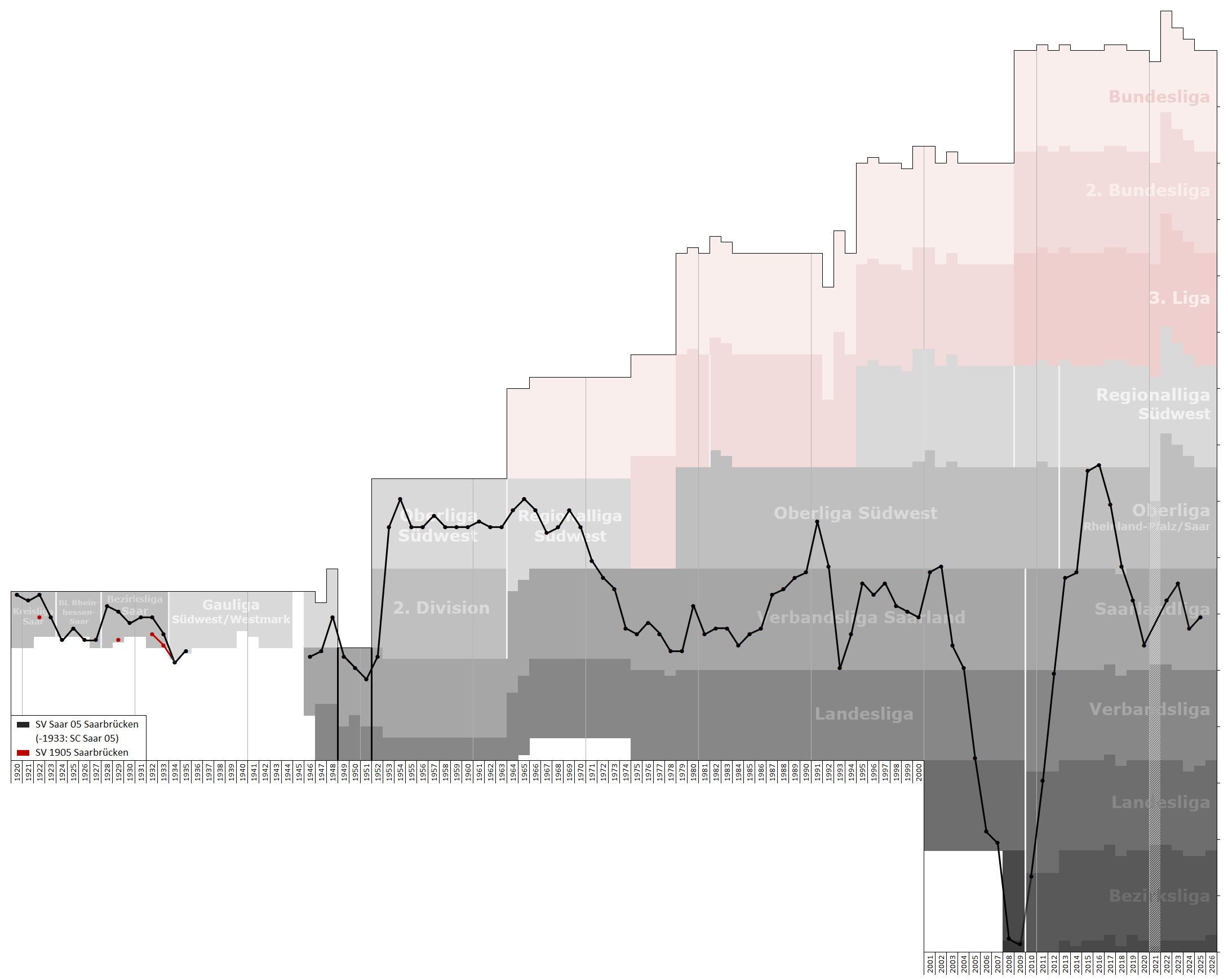 Chart of end-season table positions of SV Saar in the football league system of Germany. Data source: RSSSF, wikipedia, f-archiv.de, fussball.de